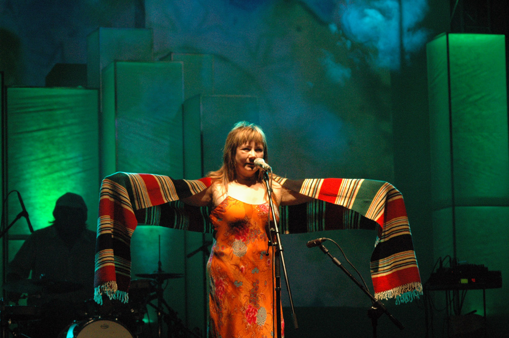 Mari Boine peforming in Warszawa, Poland in September 2007